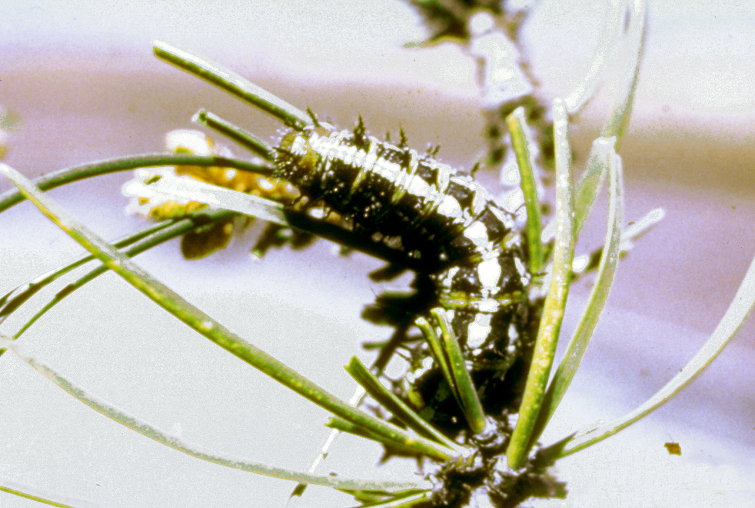 Coloradia pandora